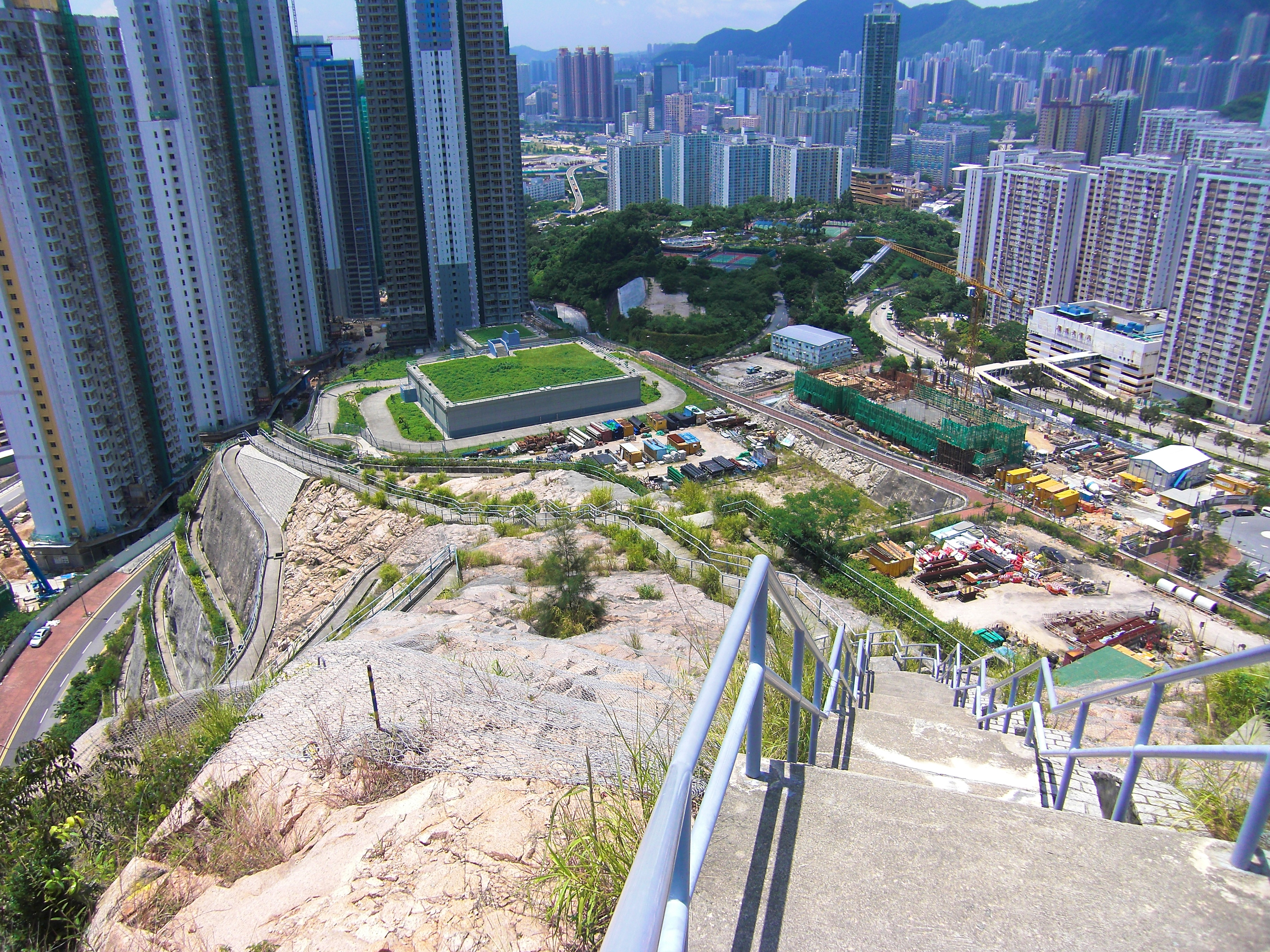 A view taken form the Jordan Valley Morning Trail is seen.